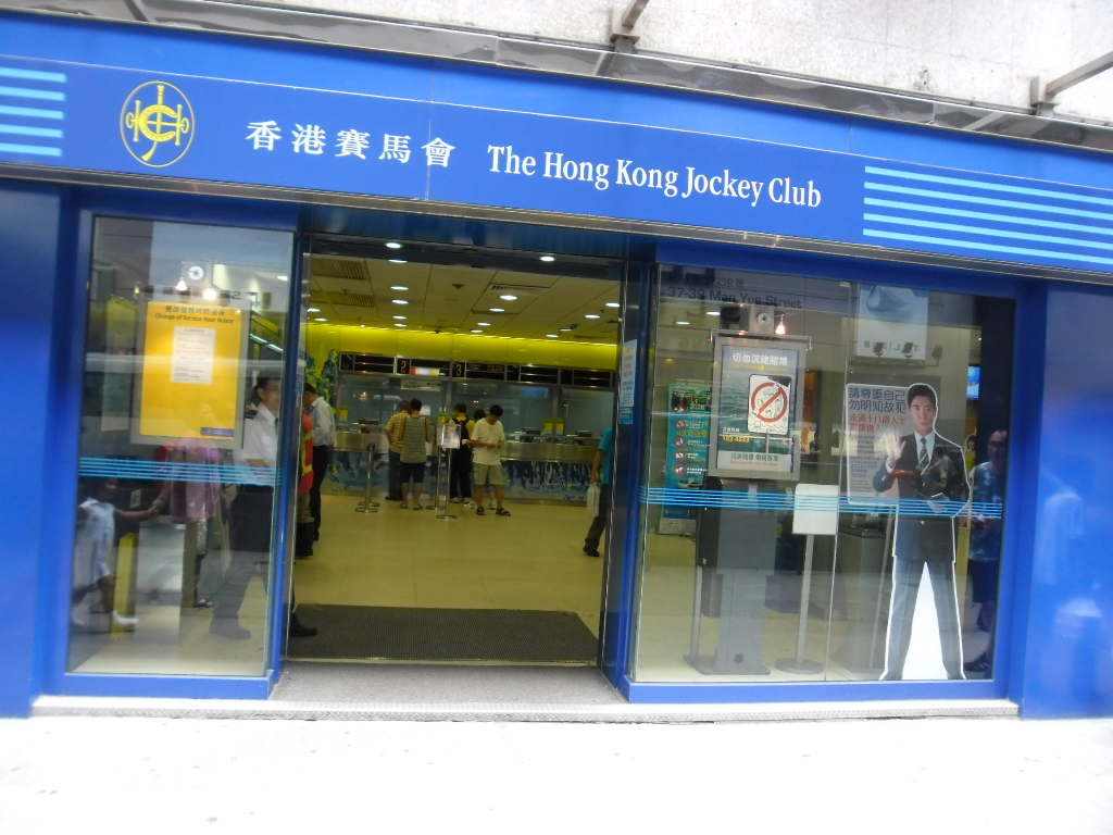 the Off-course Betting Branches of Hong Kong Jockey Club in Man Yue Street, Hung Hom中文（香港）: 位於九龍城區紅磡的民裕街的賽馬會場外投注處